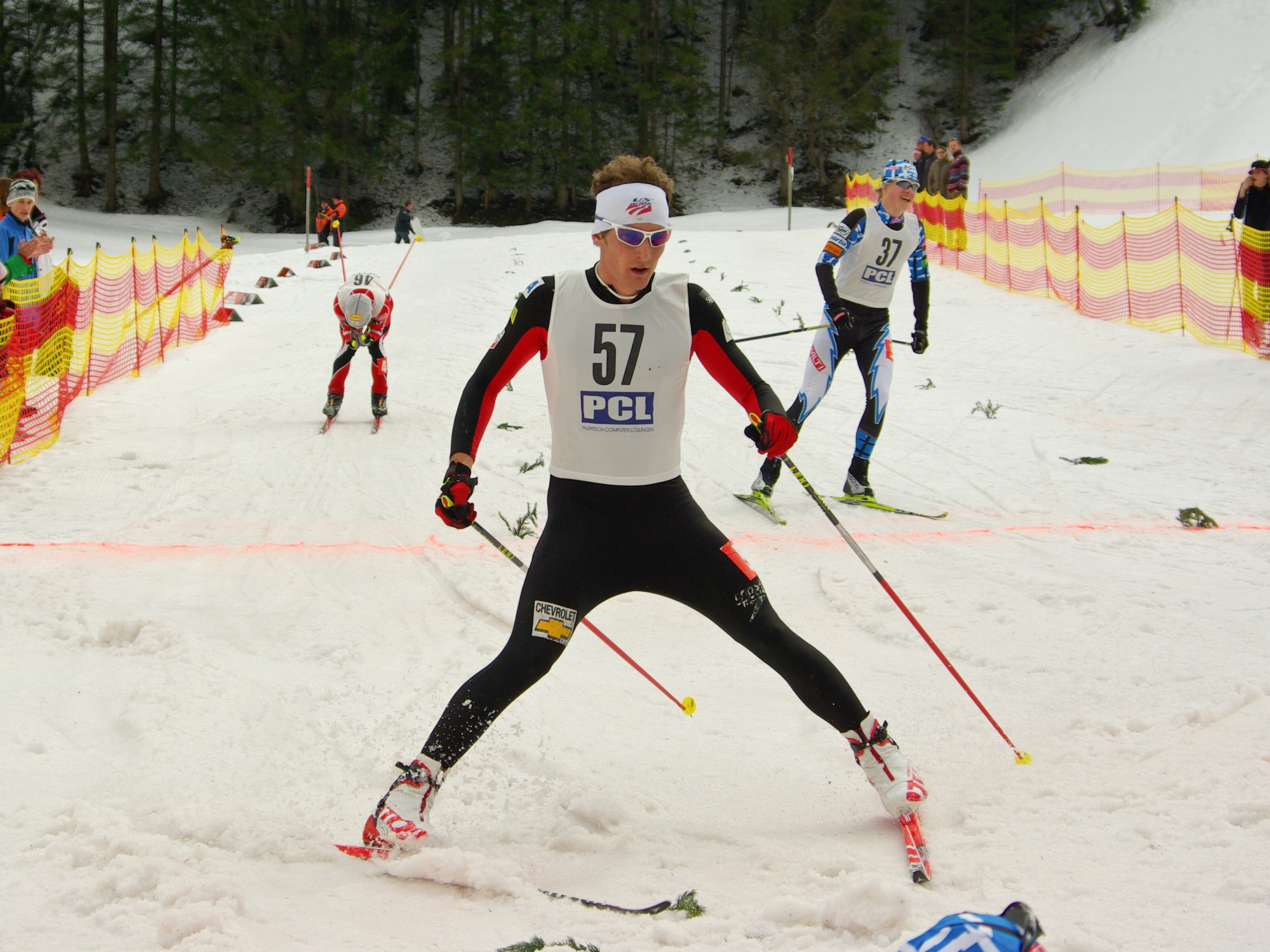 American nordic combined skier Taylor Fletcher during the World Cup B sprint event in Eisenerz (Austria) on 9 March 2008.